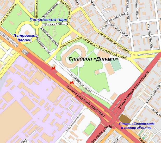 Dinamo metro map